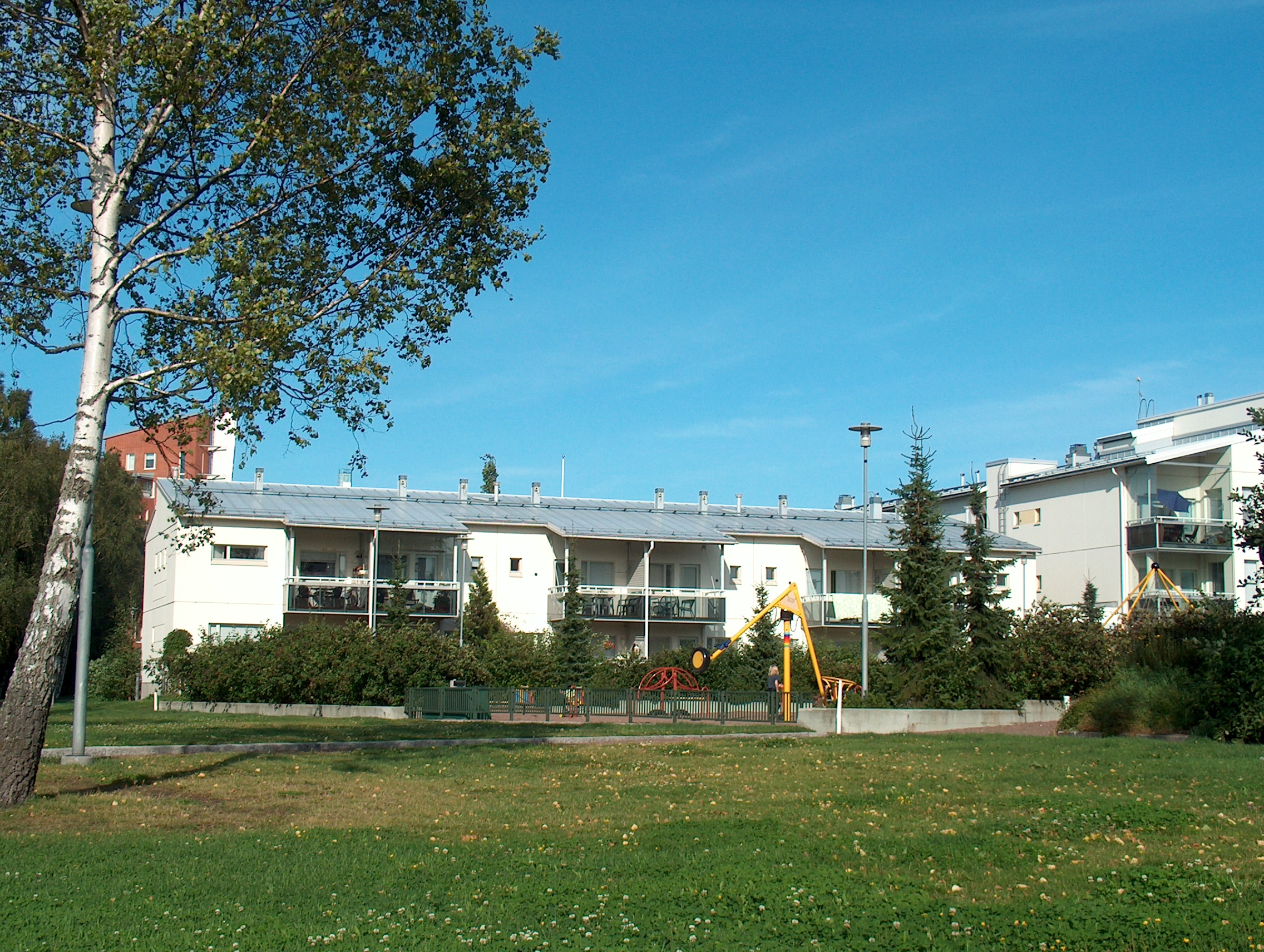 The Play Ground on Ilotulitustie in Itäkeskus, Helsinki